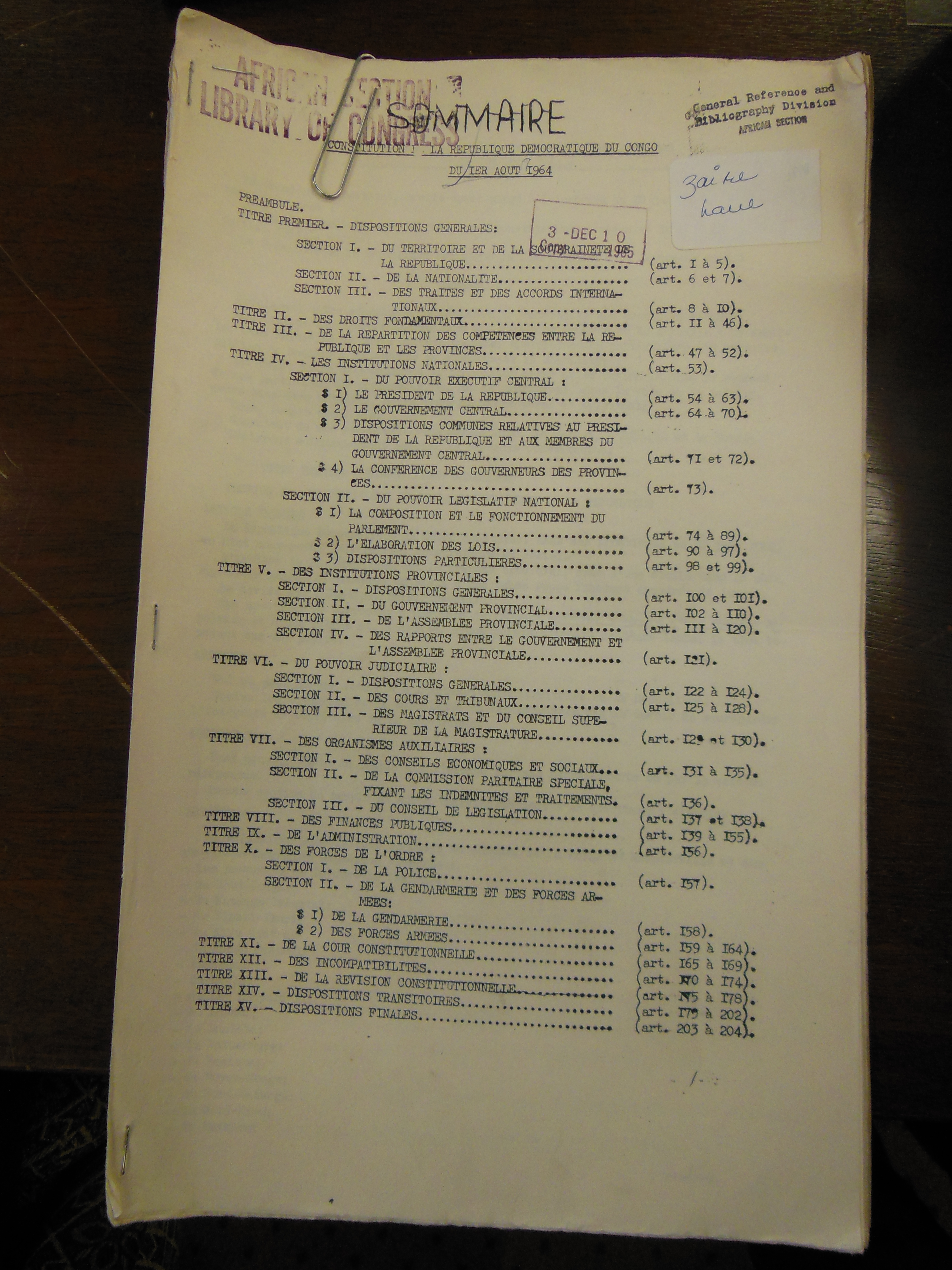 Photo of the 1964 Congo Constitution, taken in the Library of Congress African Section.